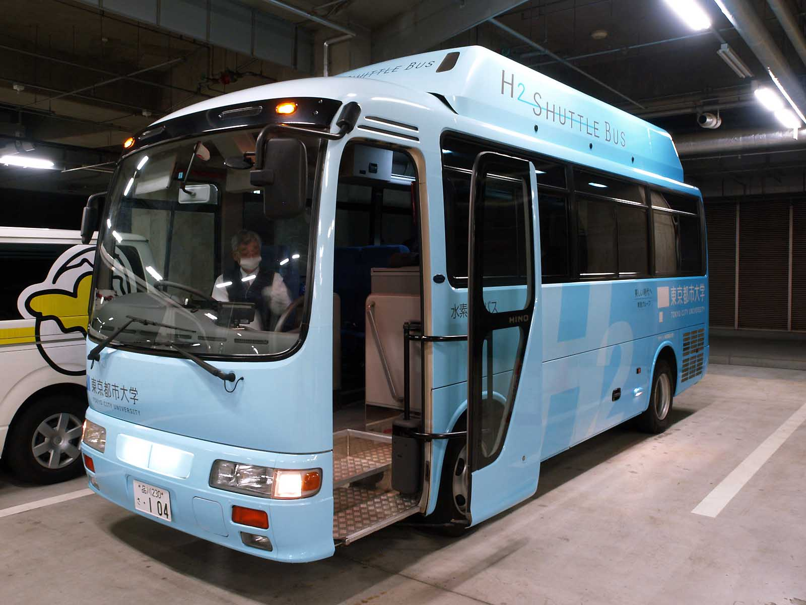 The 1st of hydrogen-powered bus in Japan, developed by Tokyo City University (ex. Musashi Institute of Technology) and Hino Motors. Fleet is operating as campus shuttle bus for TCU students. Based: Hino Liesse PB-RX6JFAA Customize: Tokyo City University and Flat Field License plate: TKS230 SA-104 Place: Muza Kawasaki, Saiwai Ward, Kawasaki City, Kanagawa Japan